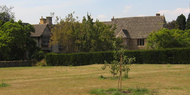 Little Wolford Manor House. This 15th century Manor fell into disrepair for about 100 years however it was restored in the 1930s, apparently retaining the blood-stained stairs - said to date back to the battle of Edgehill.